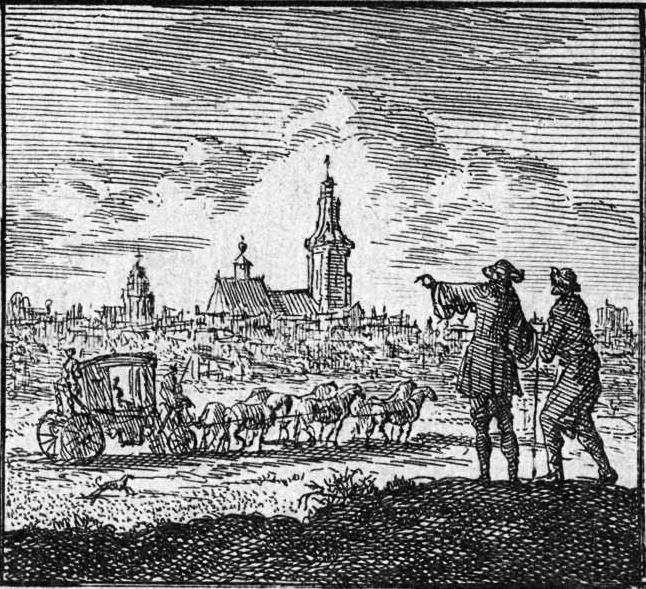 Small view of The Hague (sketched from the Northwest) from the title page of Beschryvinge van 's Gravenhage ('Description of The Hague').